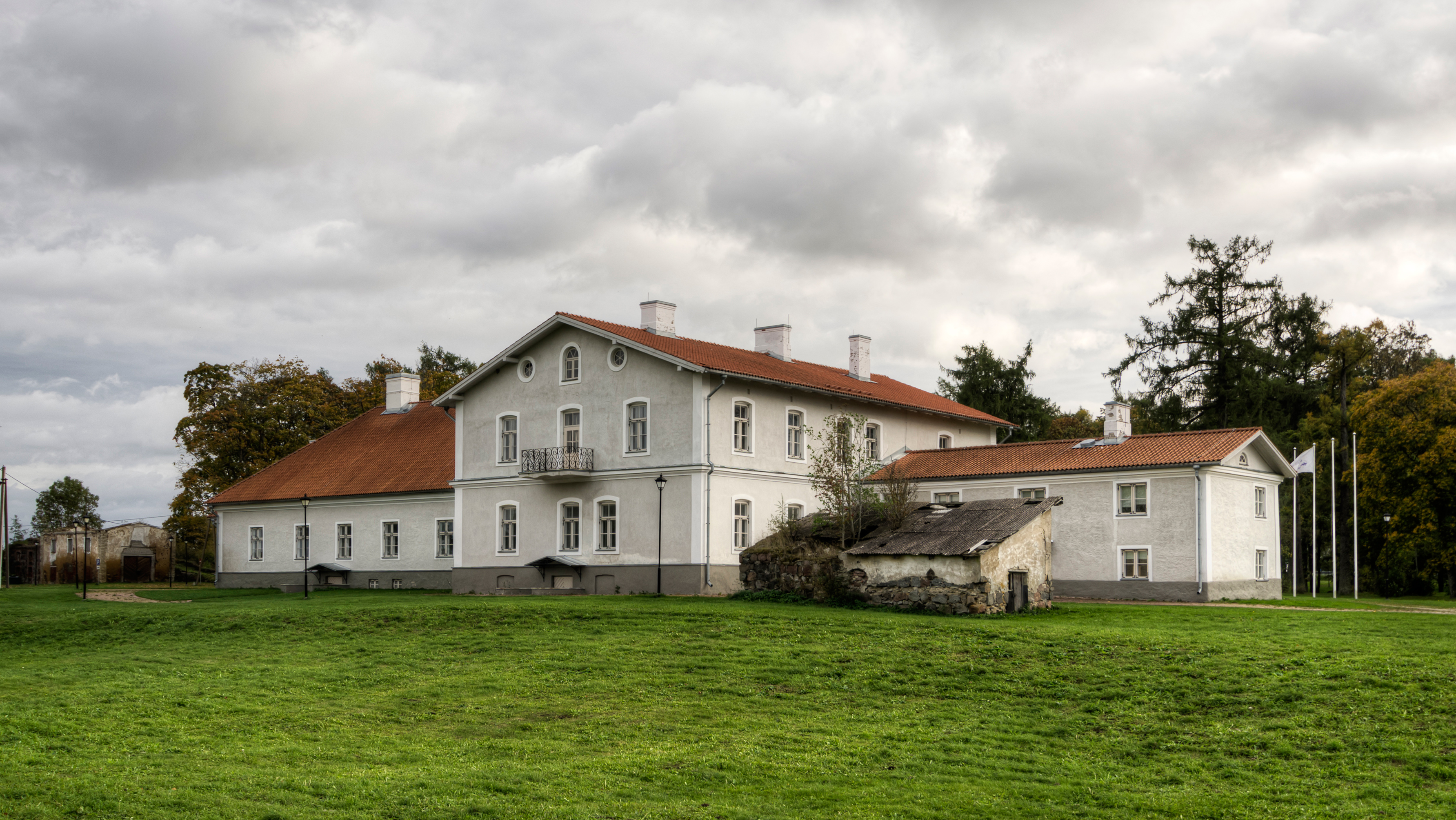 Kukruse manor house, rear view